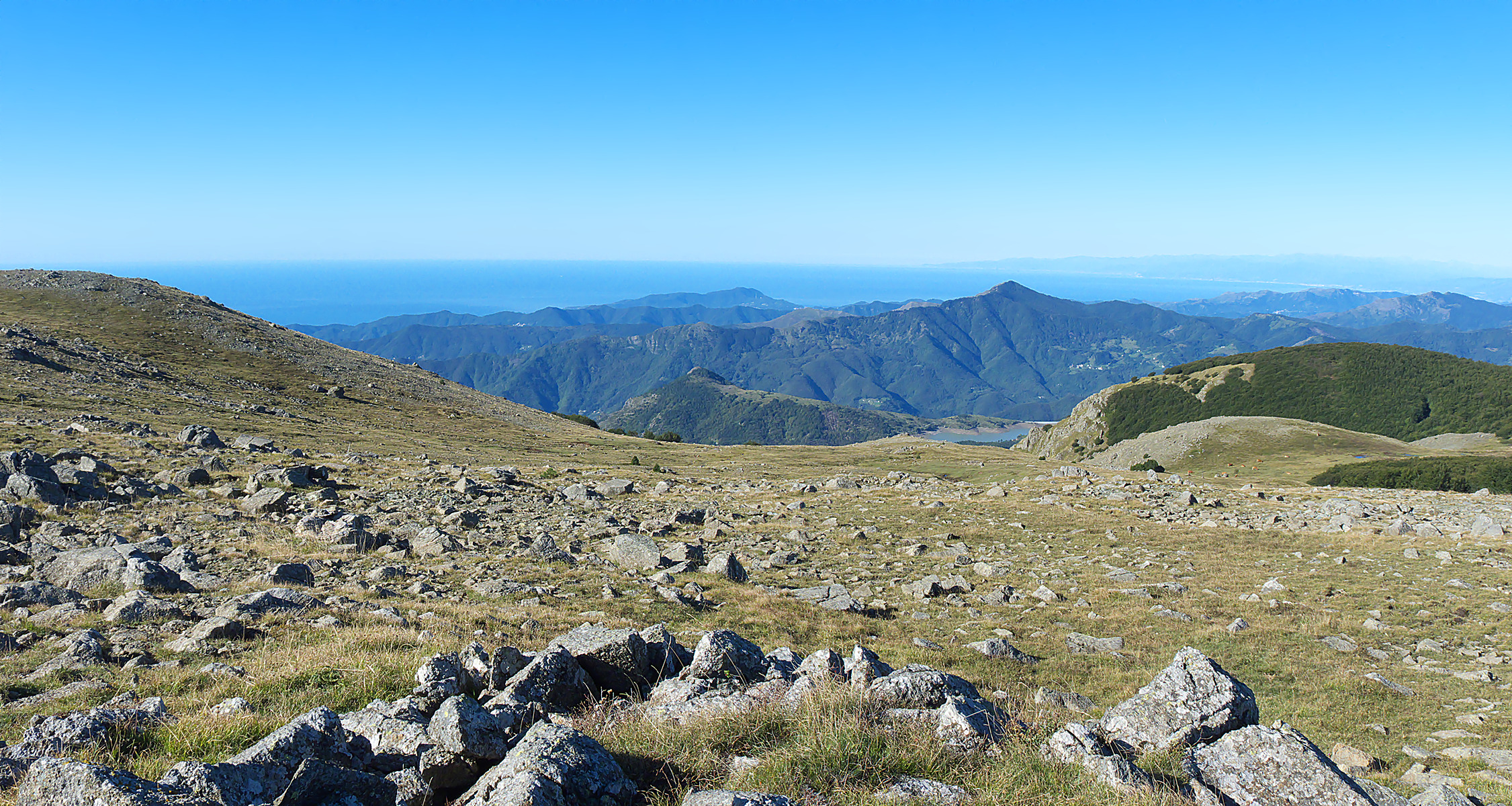 Ligurian Sea from summit of Monte Aiona